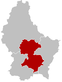 A map of the Chamber of Deputies circonscriptions (circonscriptions électorales) of Luxembourg, with Centre highlighted.